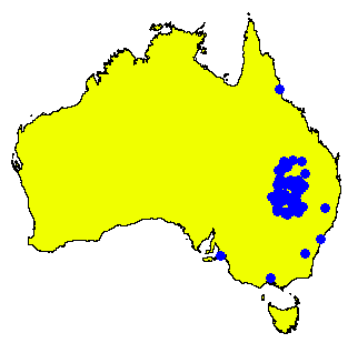 Angophora melanoxylon occurrence data downloaded from Australasian Virtual Herbarium using on 21 March 2019